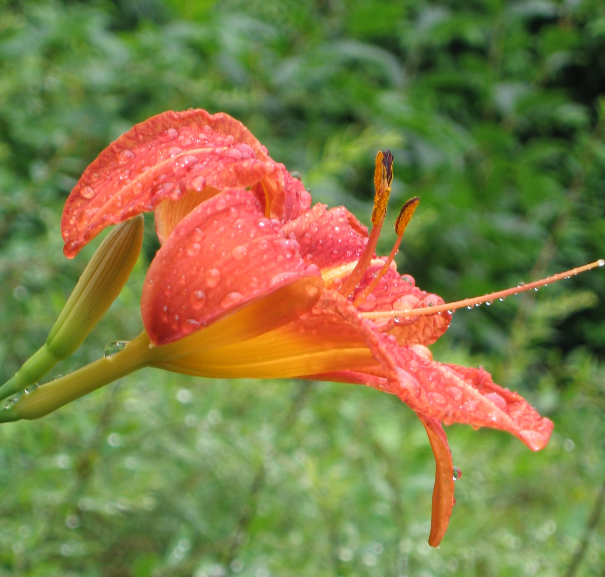 Picture of Daylily-hybrid taken in Claude Monets garden